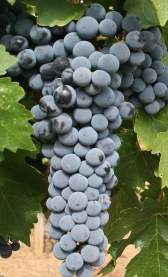 Cropped image of Cabernet Sauvignon grapes from Hedges Vineyards in Red Mountain, Washington. Photo taken August 28th, 2007 with a Kodak z650 camera.